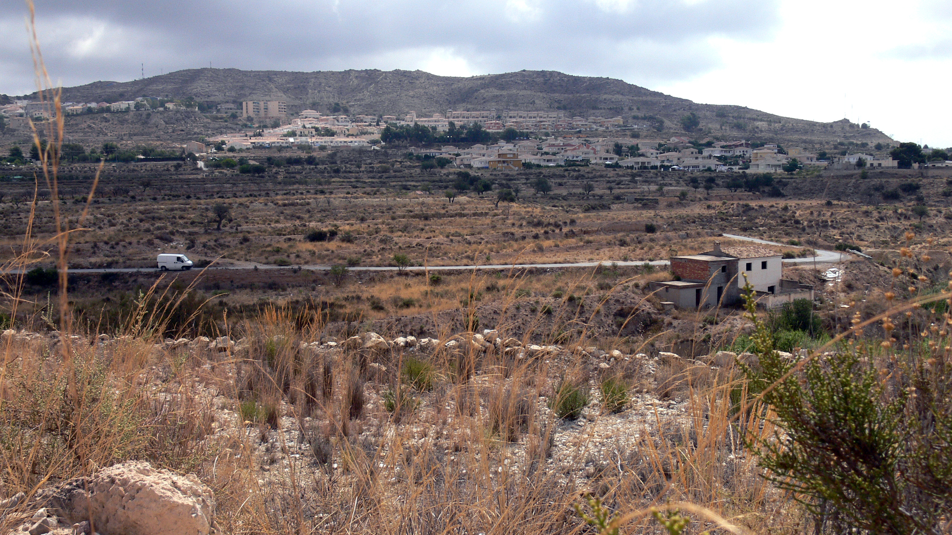 This is a sight on the Spanish village of Busot.